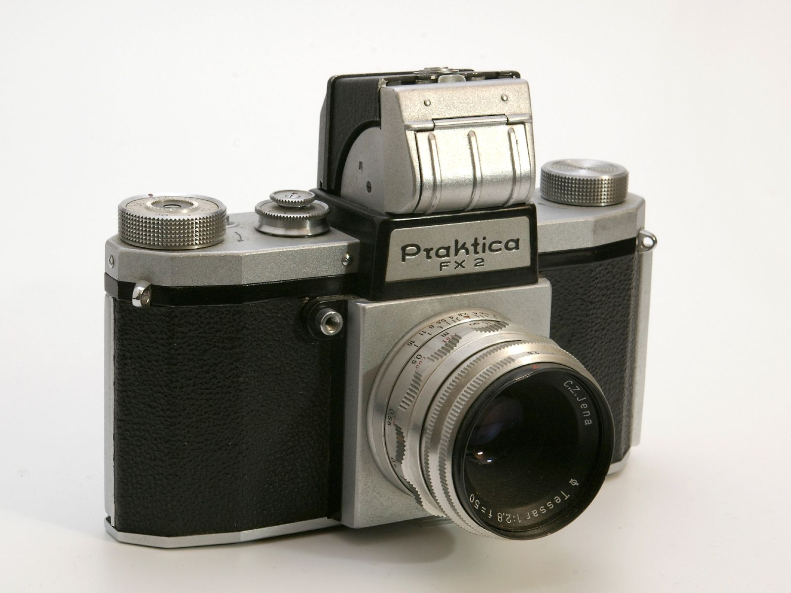 East European 35mm slr